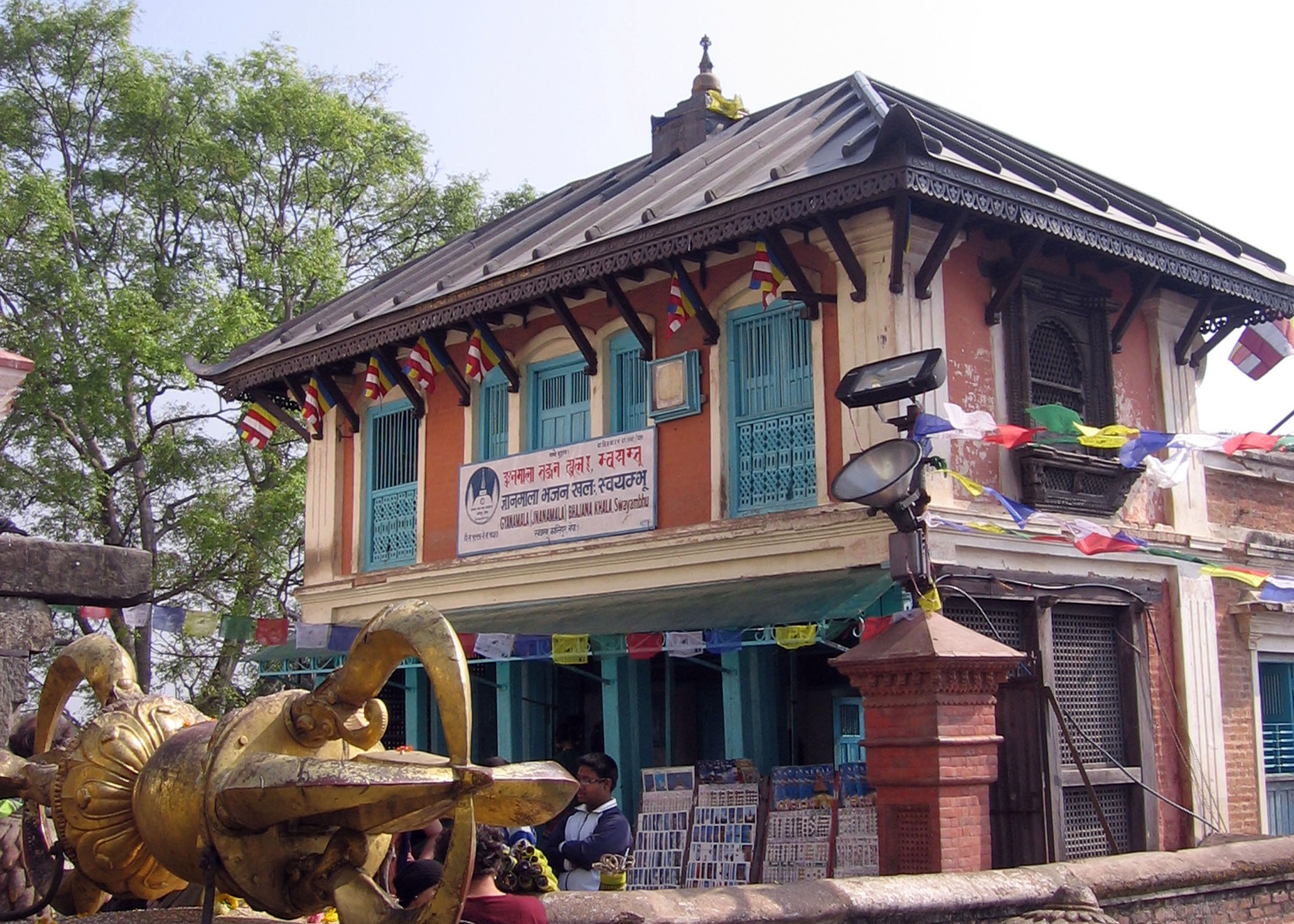 Rest house at Swayambhu, Kathmandu where the hymn group Gyanmala Bhajan Khala is based.